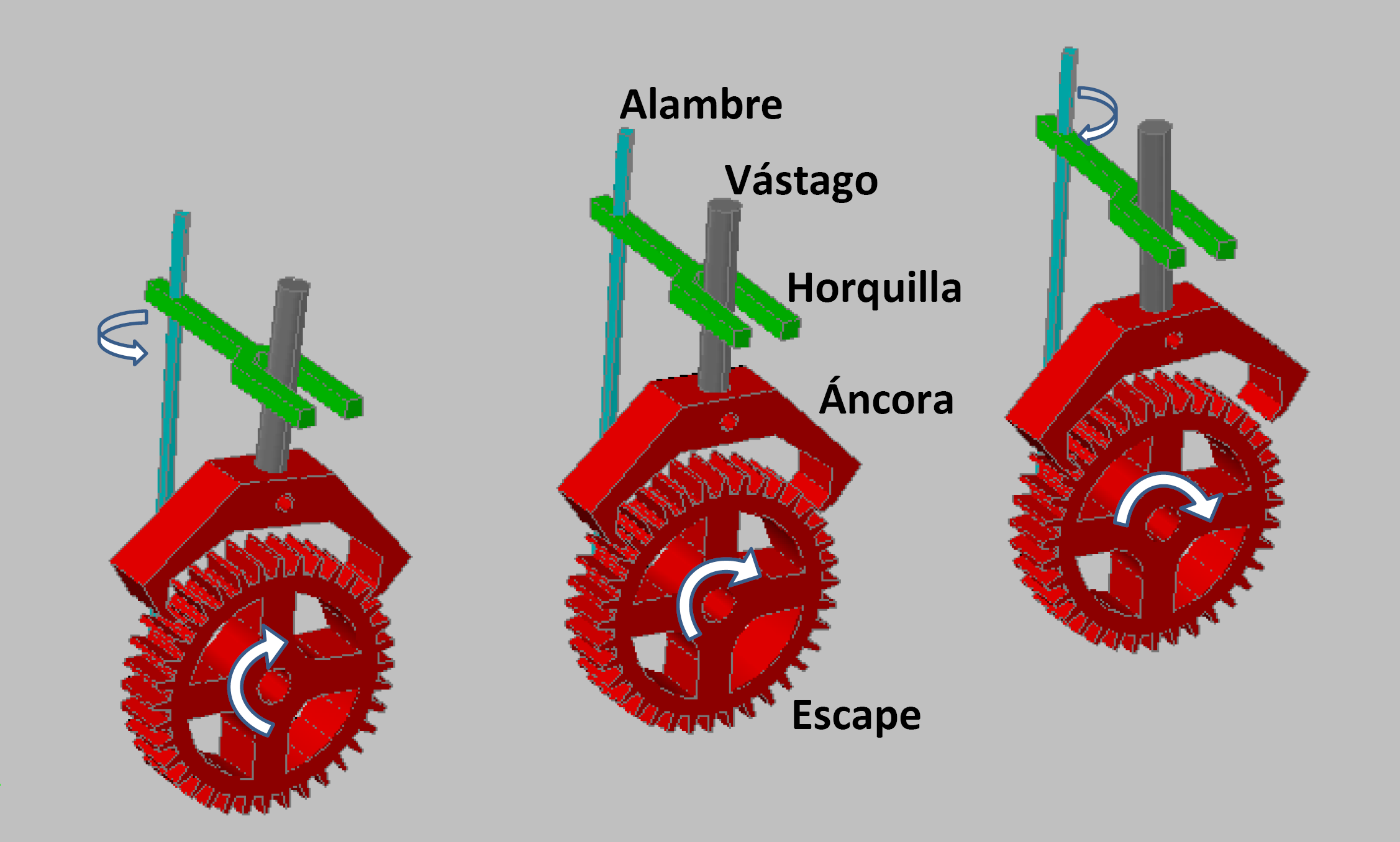 Schematic operation of a clock torsion mechanism